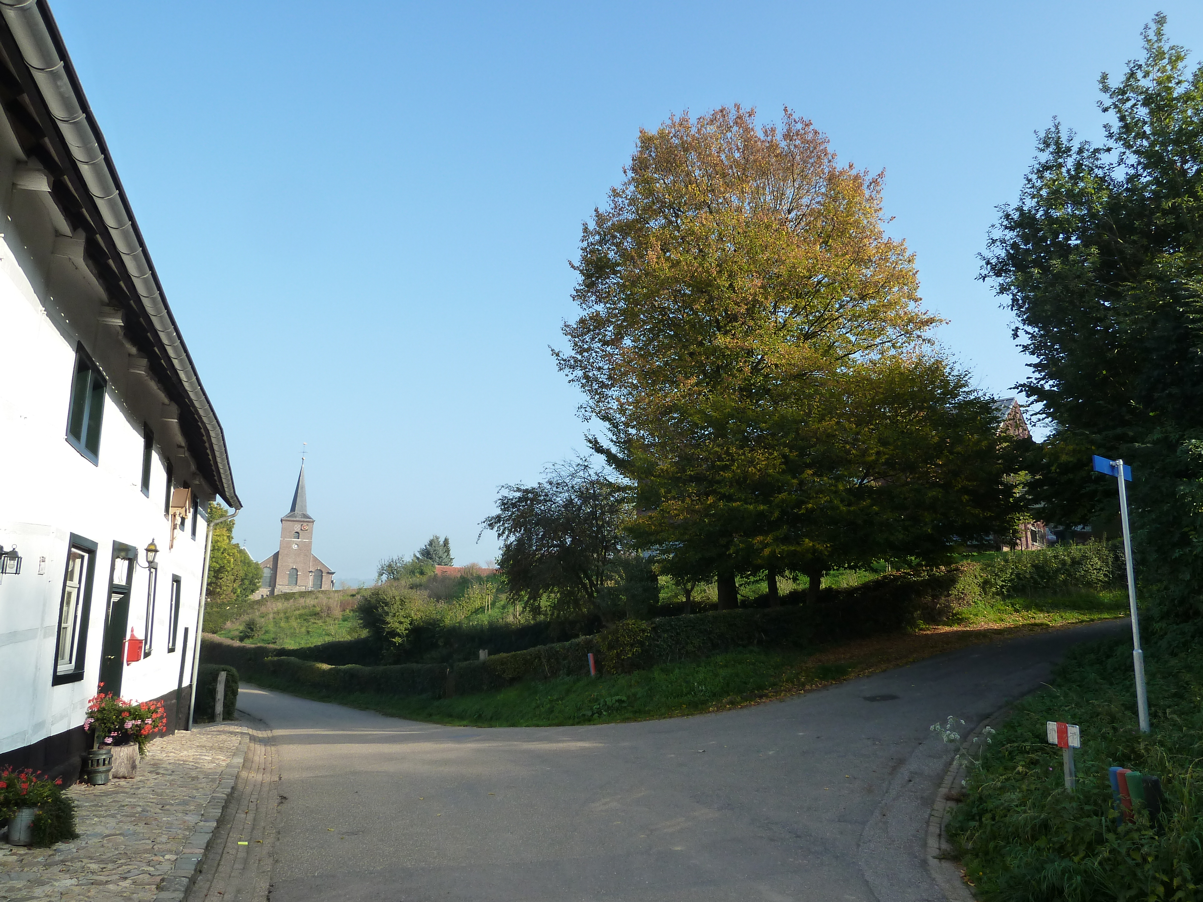 De Paulusborn, Epen, Limburg, the Netherlands